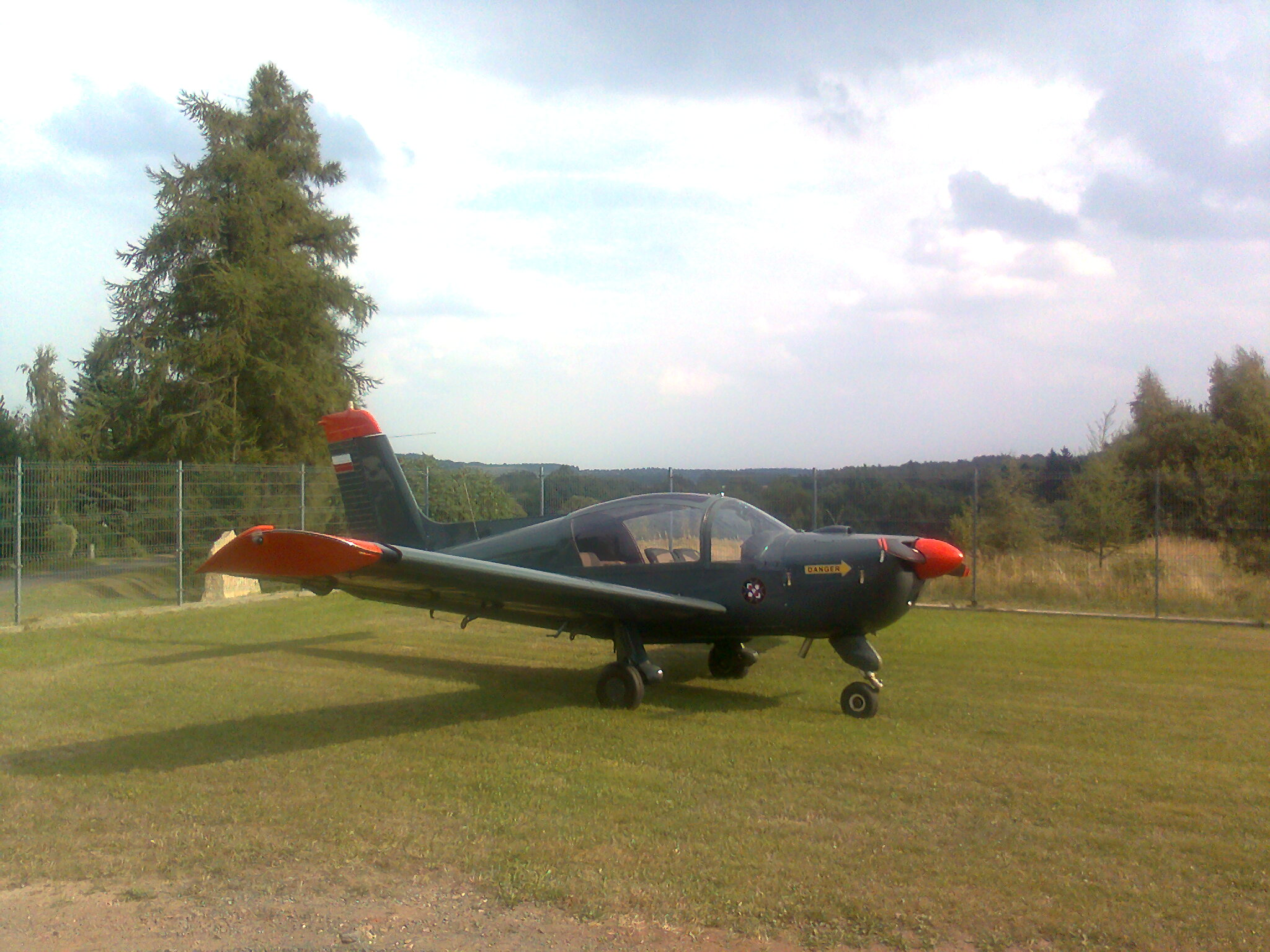 Socata-Morane MS-893A SP-NMR